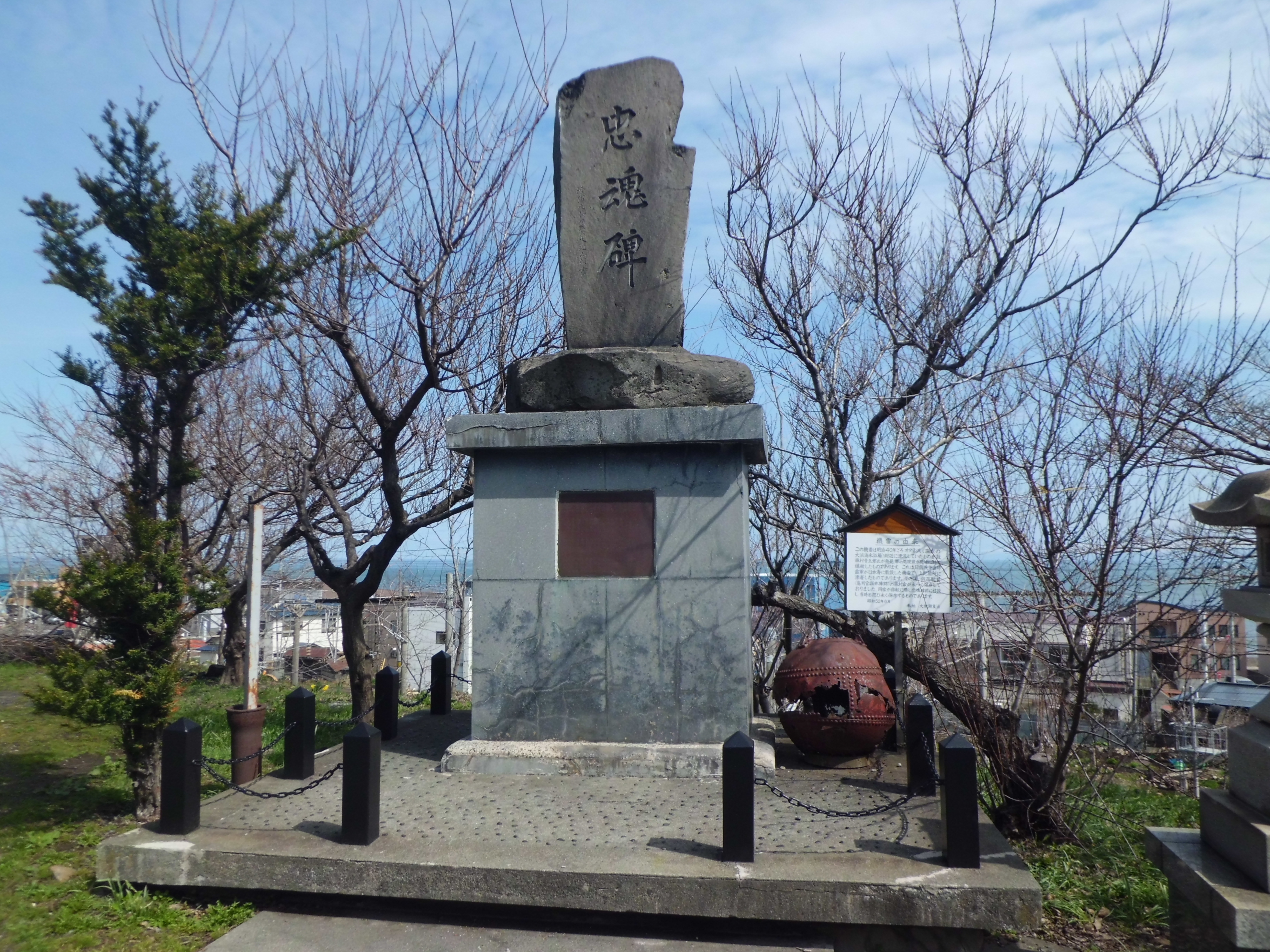 Chukon-hi at Toyotari Shrine with a Russian mine of Russo-Japanese War.